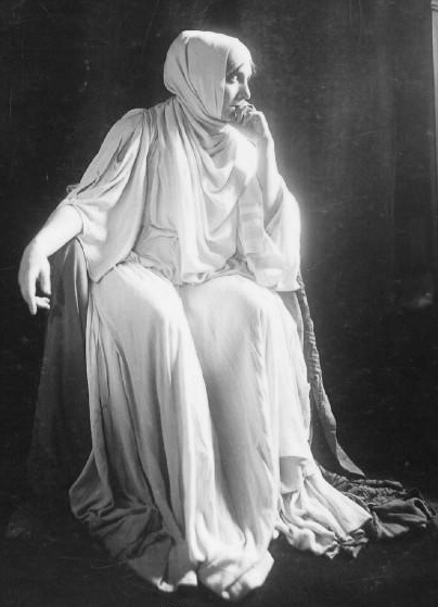 Claire Croiza (1882-1946) in Gabriel Fauré's Pénélope at the Théâtre de la Monnaie in Brussels in December 1926.